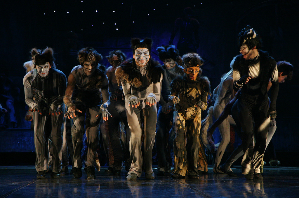 Dariusz Wiórkiewicz as Sierściuch, Patryk Gładyś as Turbo Ptyś, Robert Adamczewski as Alonzo, Karol Tymiński as Raptus Zuch (Rumpus Cat) and Paweł Irmiński as Mefistofeliks (Mr Mistoffelees) in the musical "Cats" in Roma Musical Theatre in Warsaw, 8 December 2007.